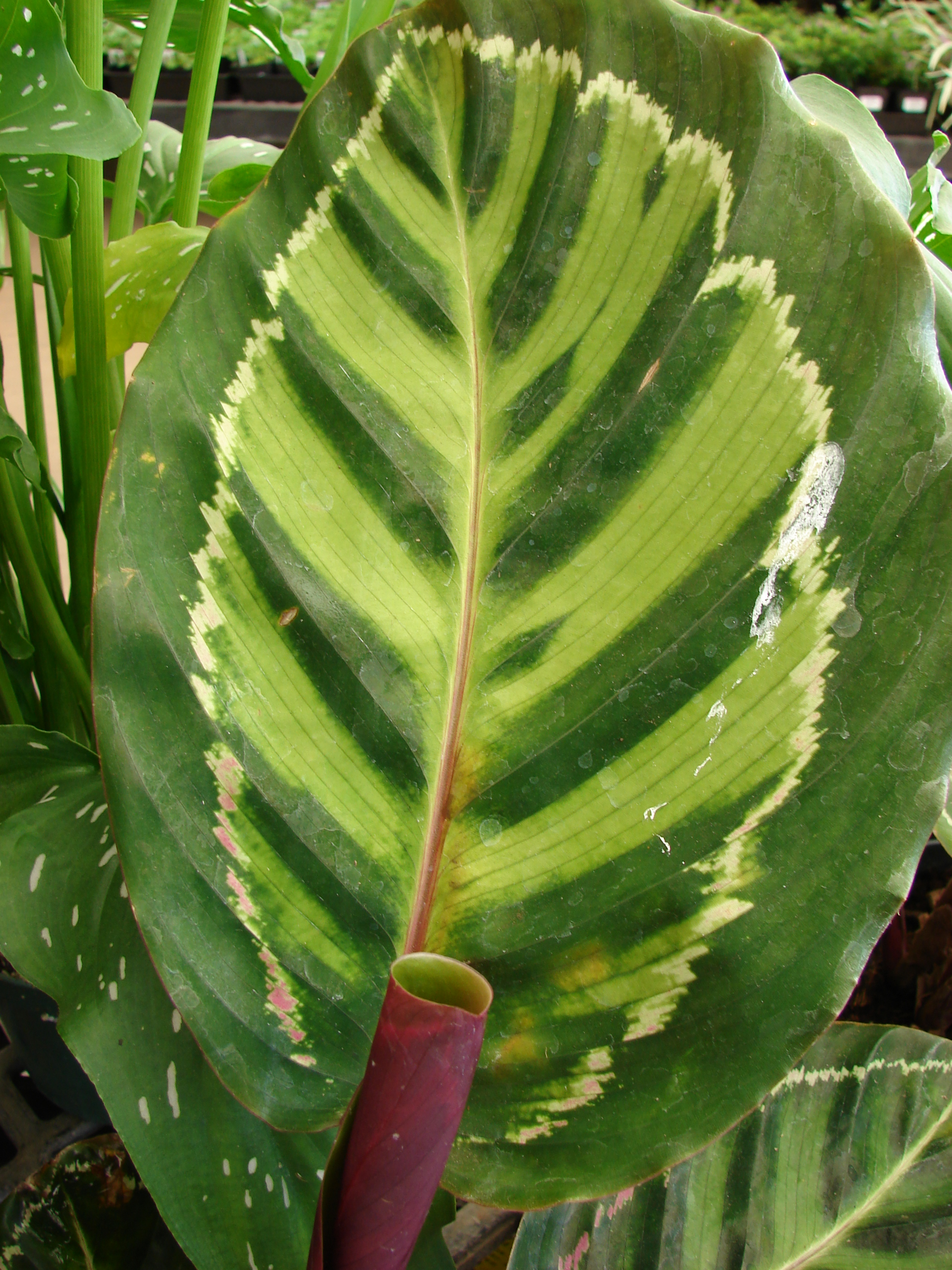 Calathea roseopicta (leaf). Location: Maui, Walmart Kahului